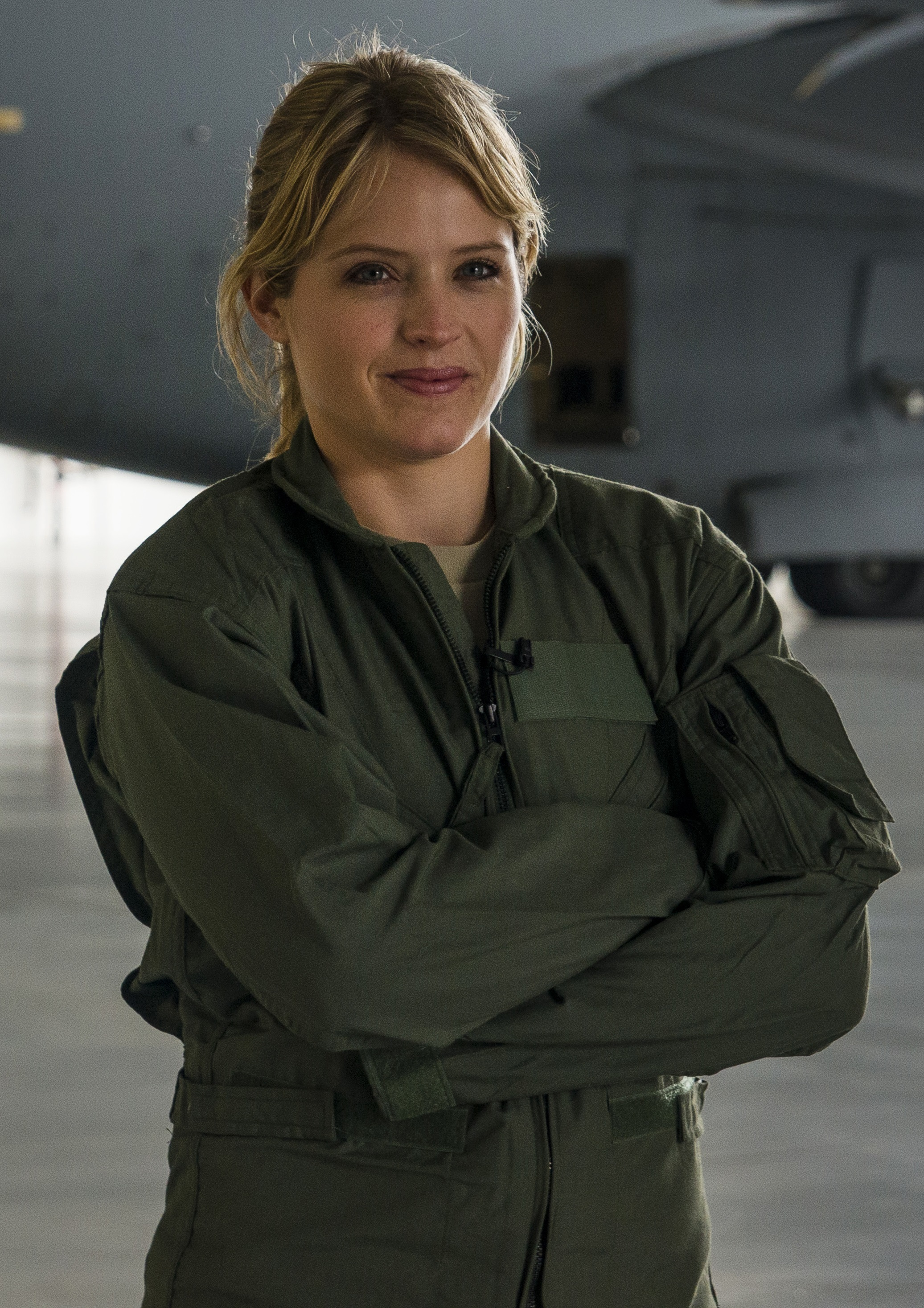 Sara Haines, NBC Today Show correspondent,poses for a photo during a visit to the base April 19, 2013, at Joint Base Charleston – Air Base, S.C. Haines met with members from the 437th Aircraft Maintenance Squadron, 14th Airlift Squadron, 628th Security Forces Squadron Ravens team and 437th Aerial Port Squadron. Each interview included hands-on interaction with Airmen explaining their job and their role in mission success. (U.S. Air Force photo/ Senior Airman George Goslin)